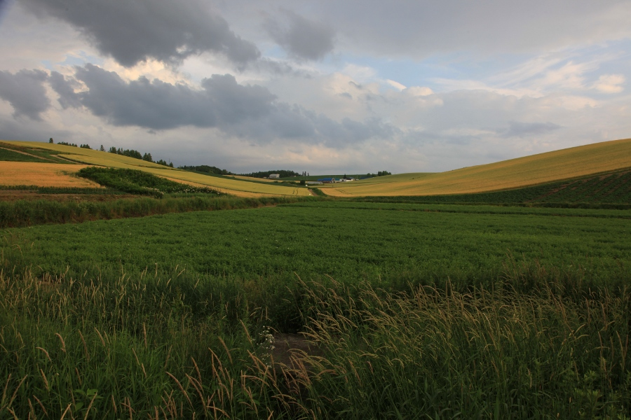 The open field at Kamifurano(上富良野), Sorachi(空知) District, Hokkaido(北海道) Prefecture, Japan